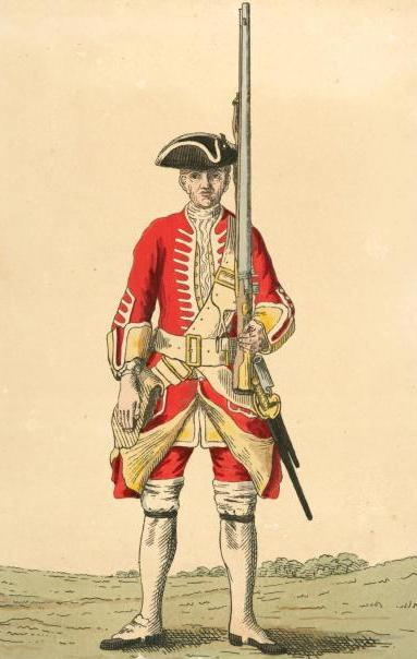 soldier of 20th regiment 1742